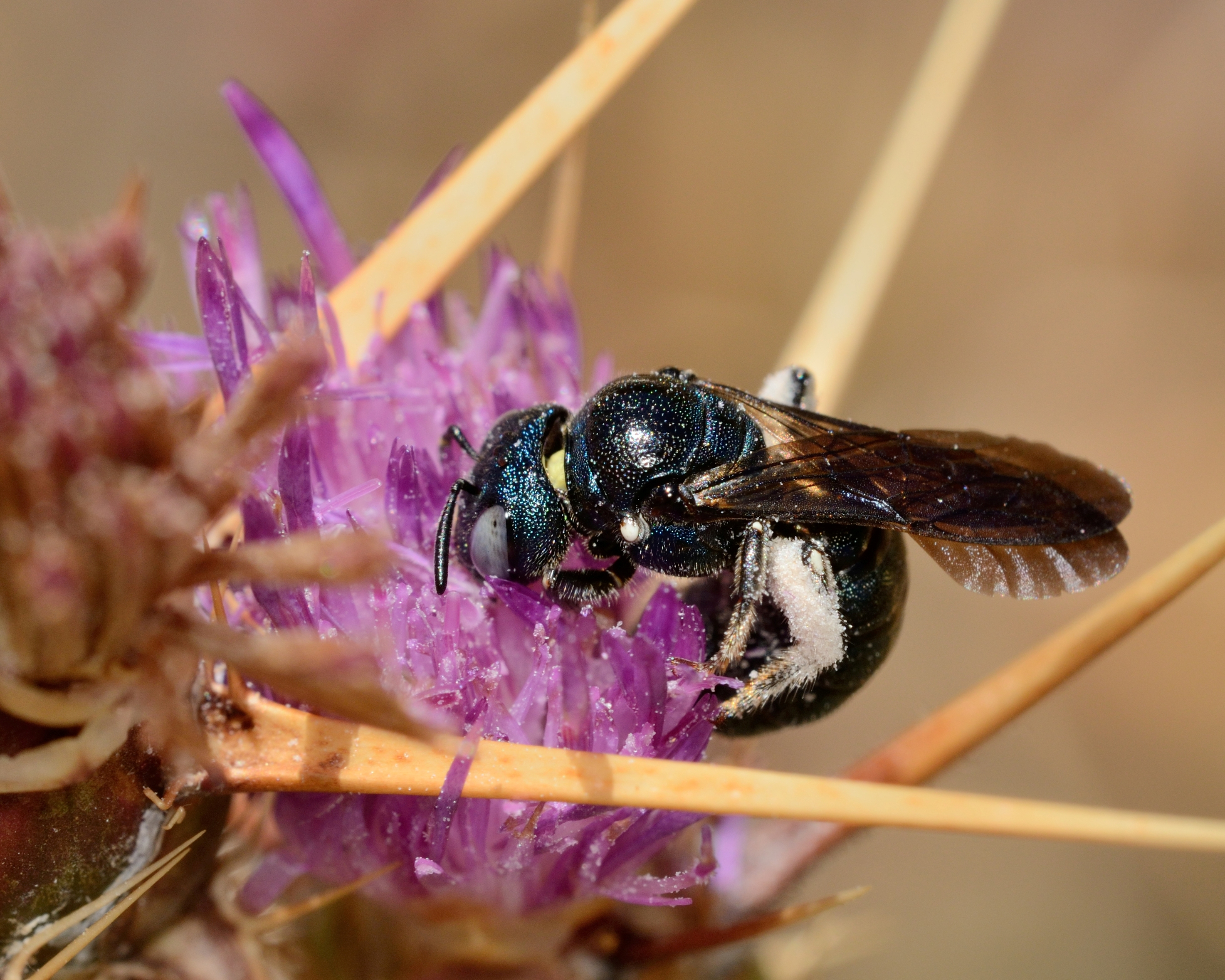 Ceratina chalcites Germar 1839, female foraging on Centaurea sp., Mount Hermon, Golan Heights, July 5, 2014.